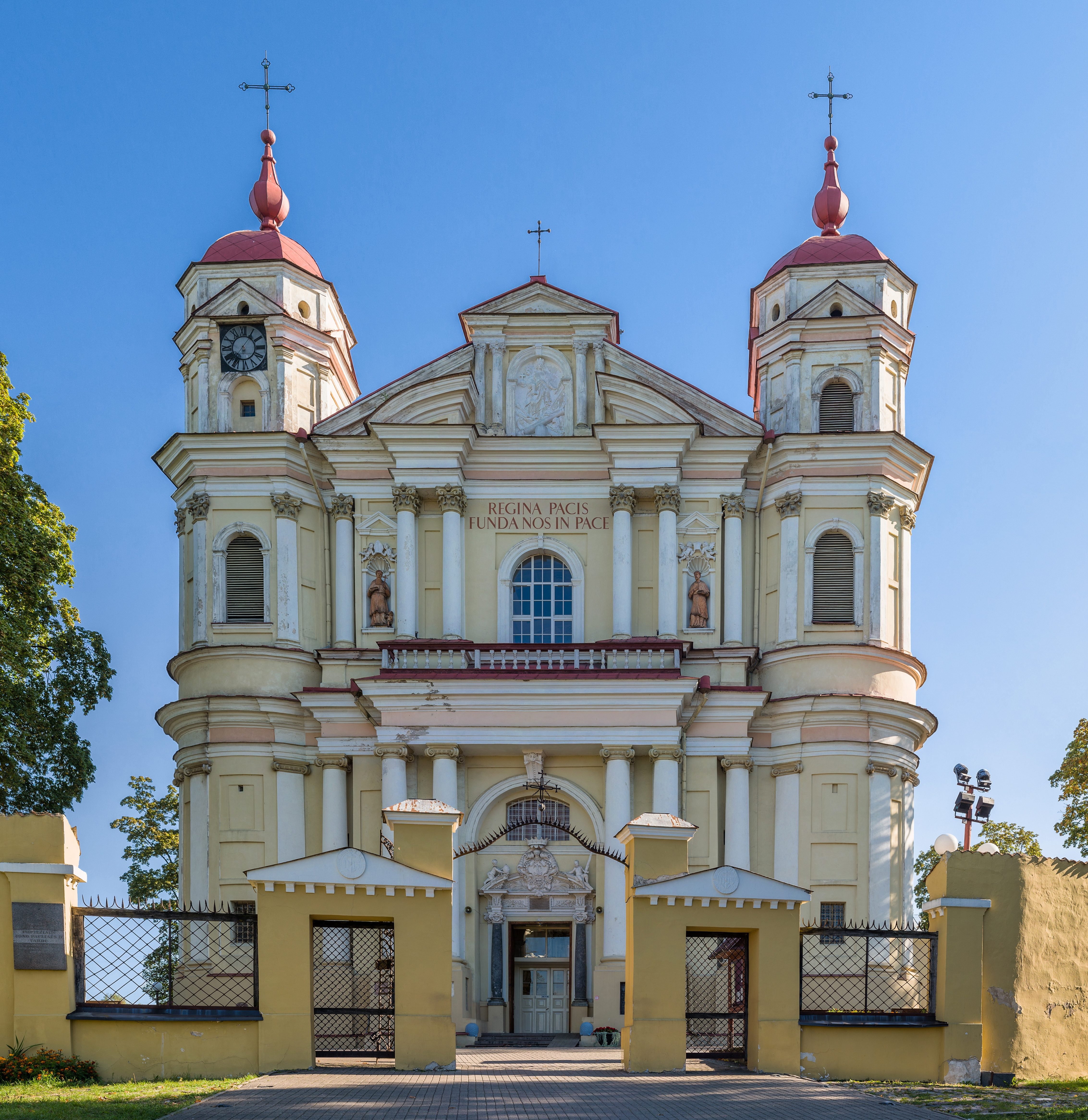 The exterior of St. Peter and St. Paul's Church in Vilnius, Lithuania.